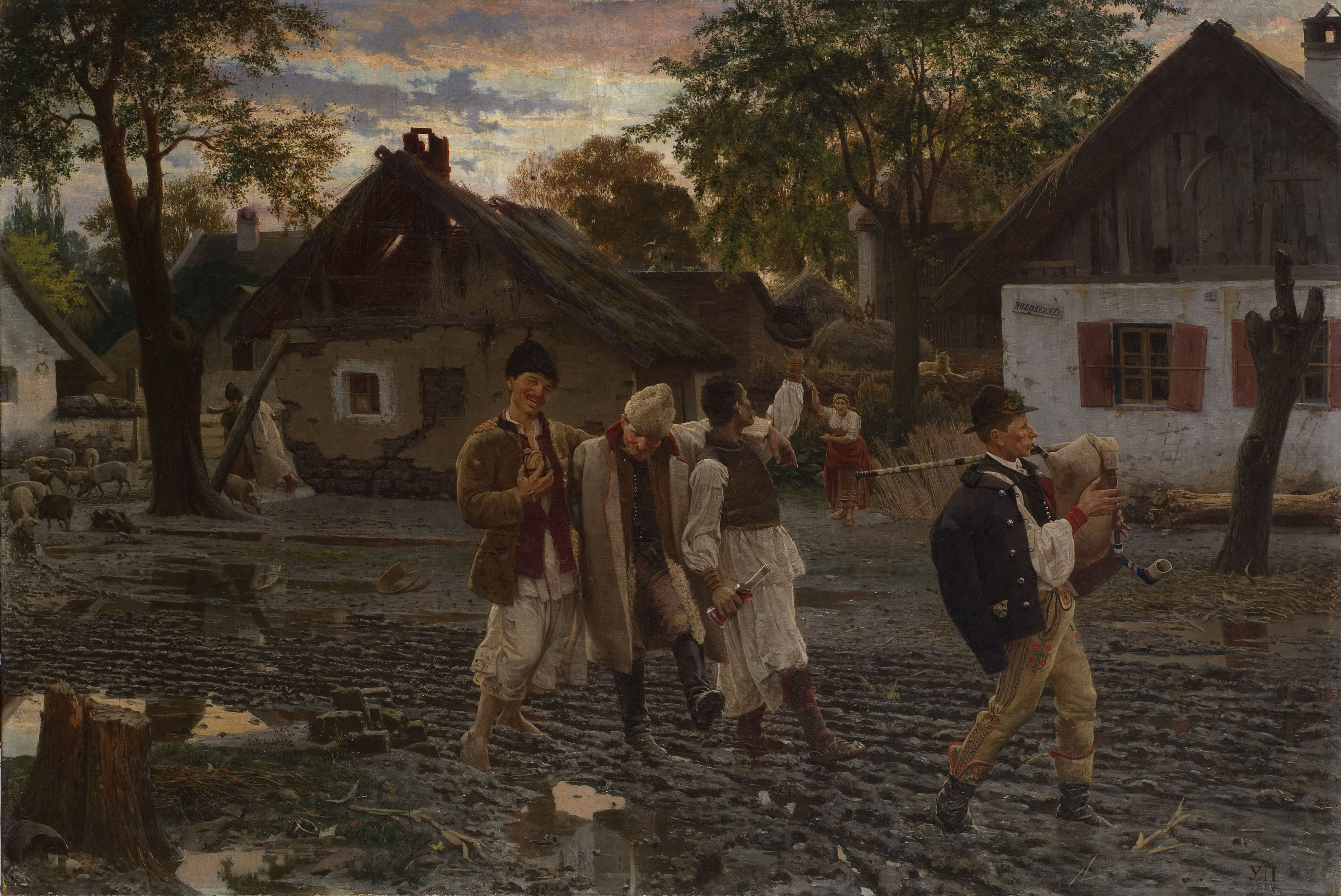 Merry brothers (1887).